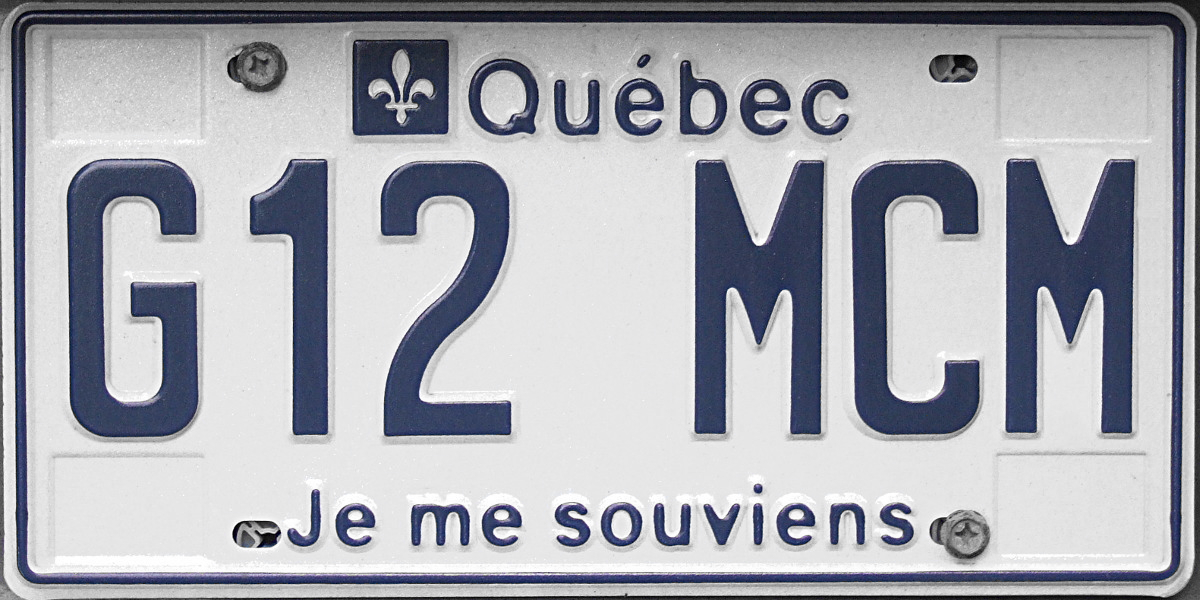 2016 Quebec license plate, private passenger car